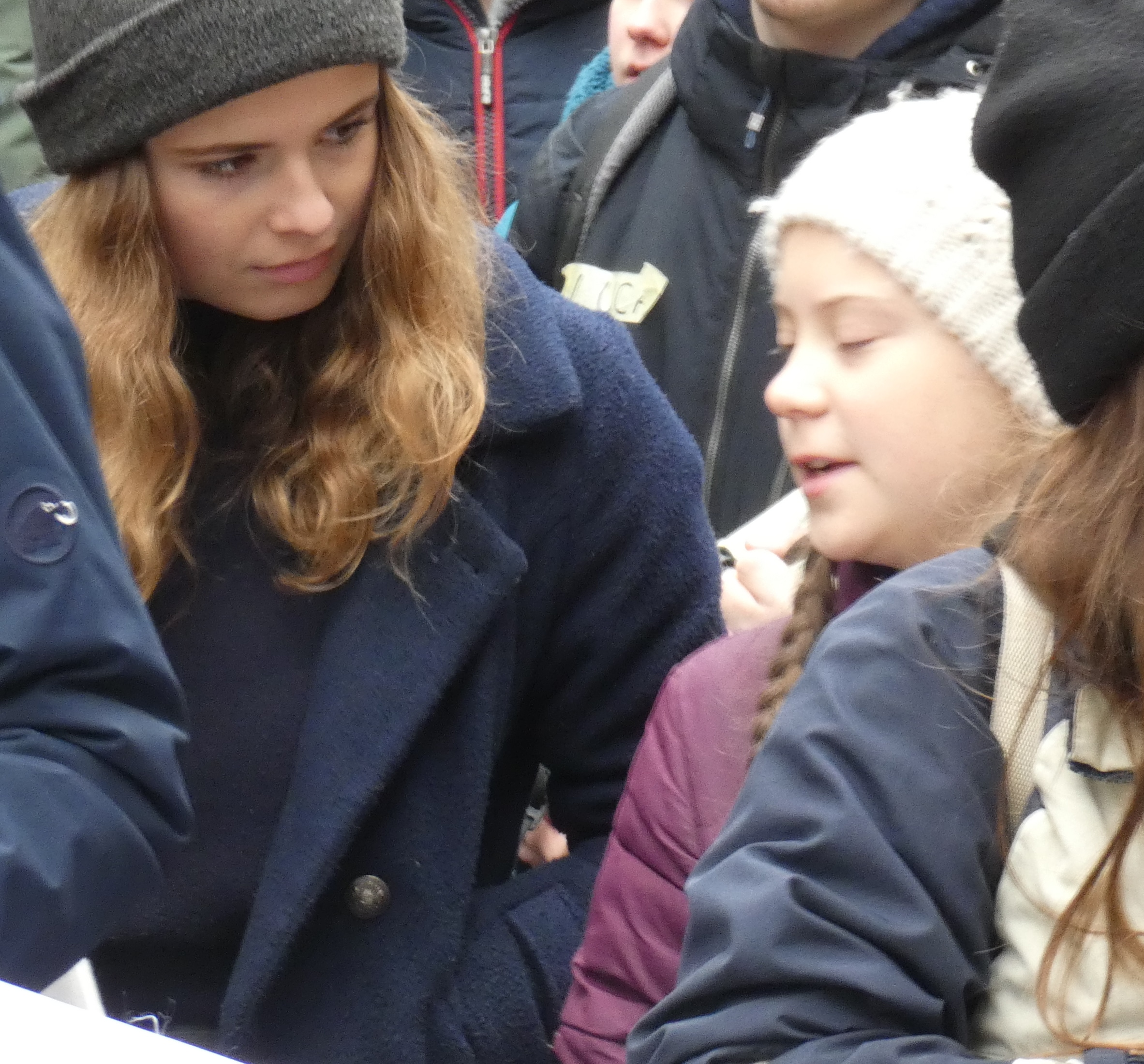 Fridays For Future Hamburg 1st march 2019